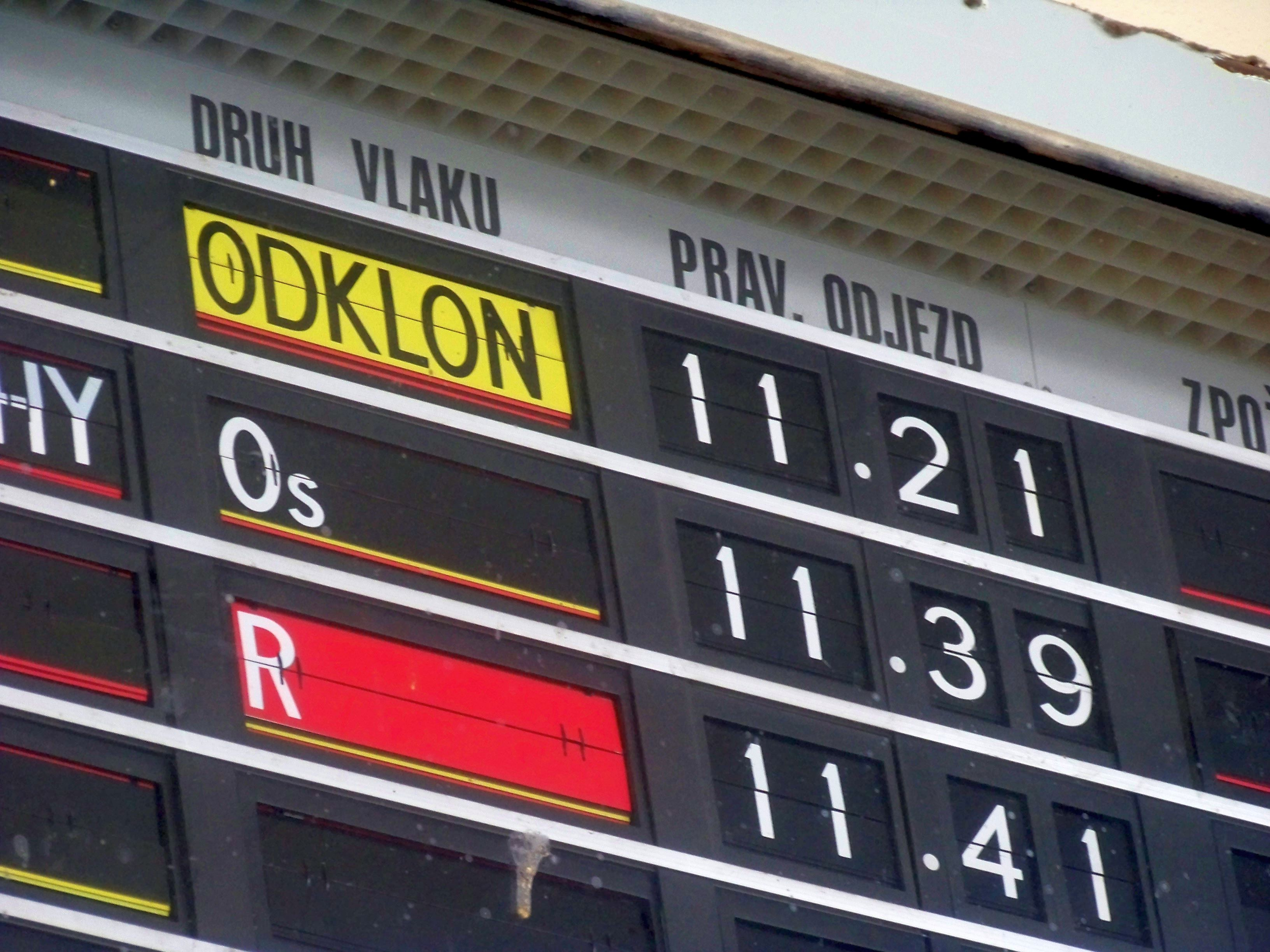 Beroun, Beroun District, Central Bohemian Region, the Czech Republic. A departure board in the vestibule.